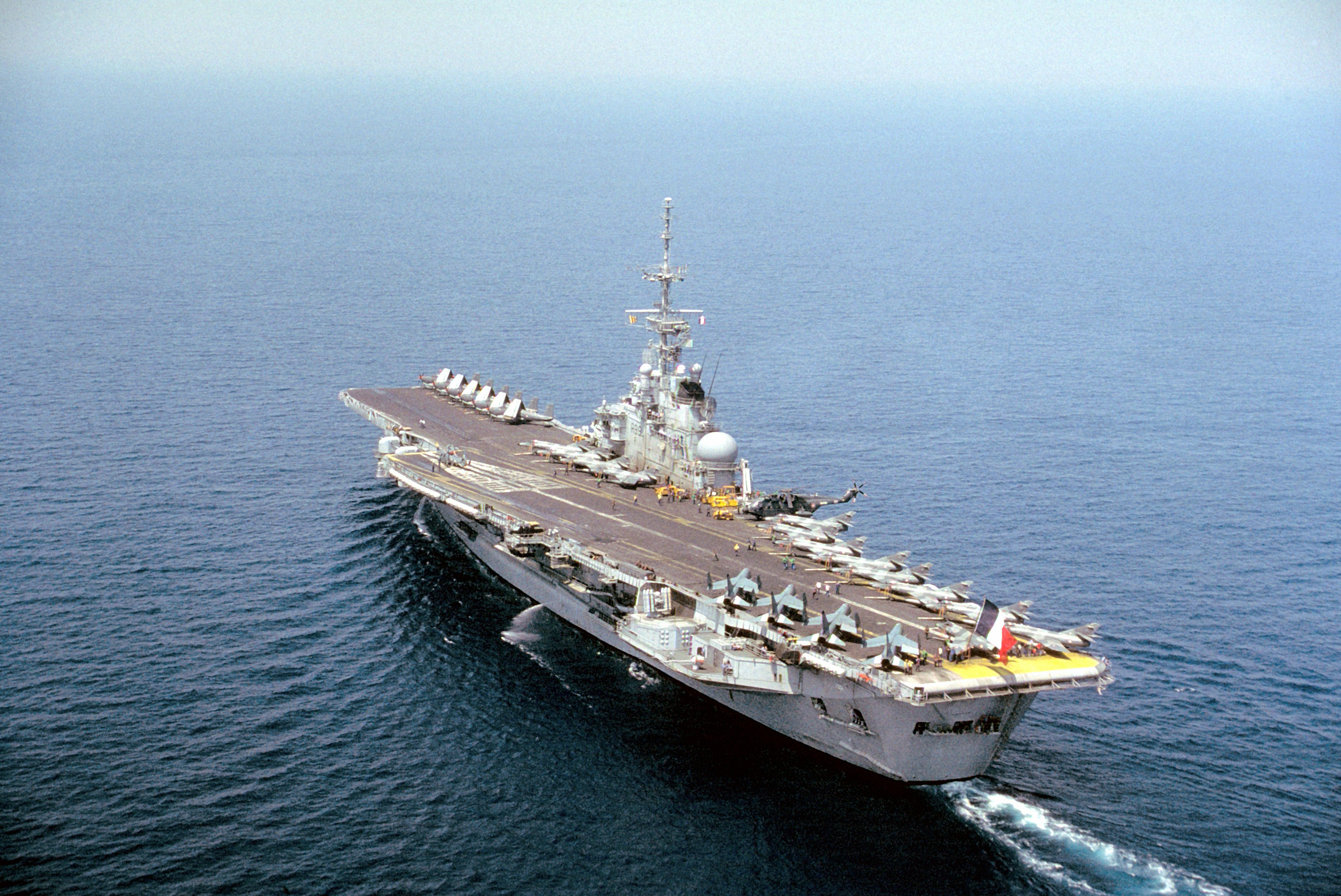 A port quarter view of the French navy's aircraft carrier Foch (R-99) underway during exercise Dragon Hammer '92.